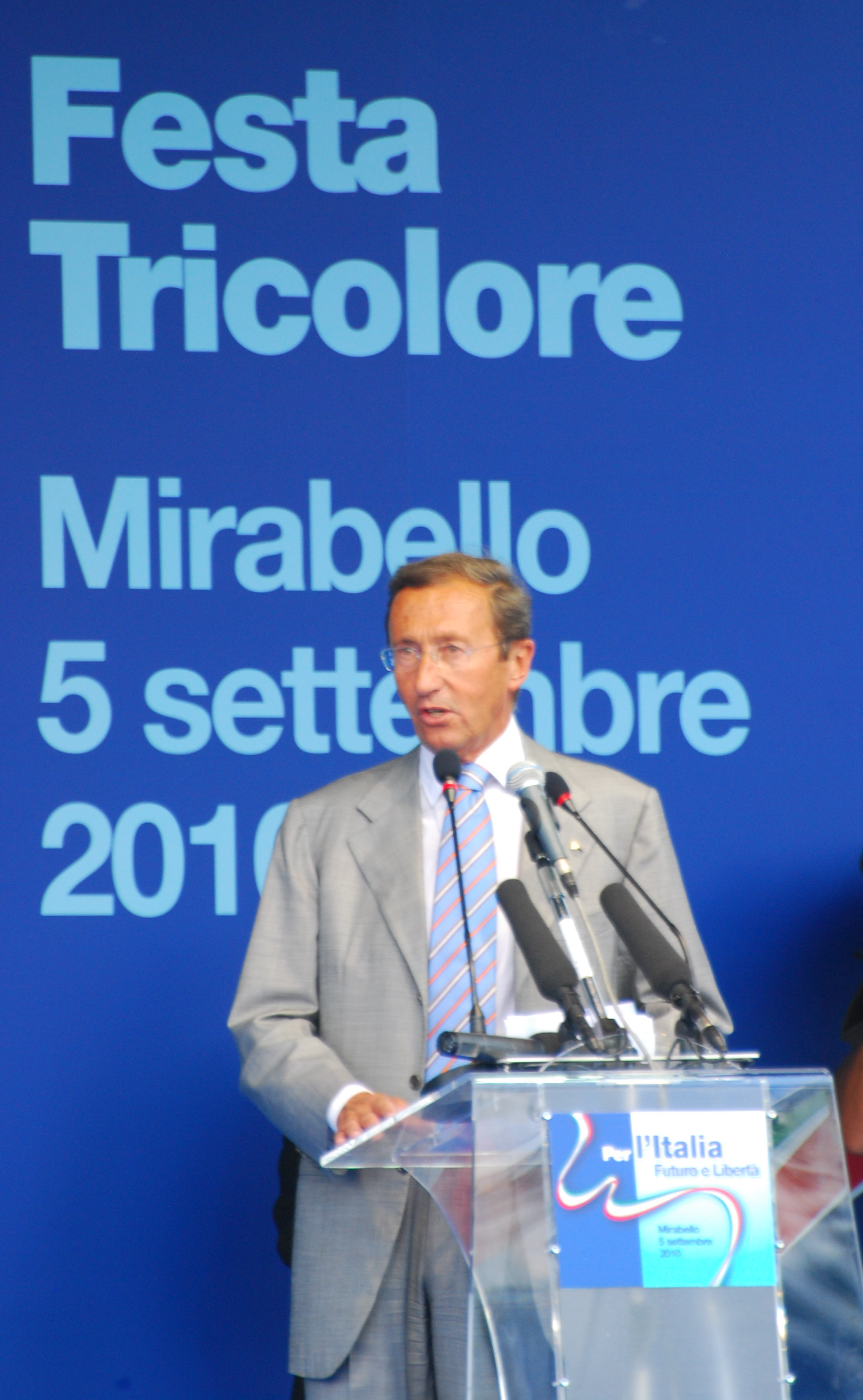 Gianfranco Fini in Mirabello's meeting